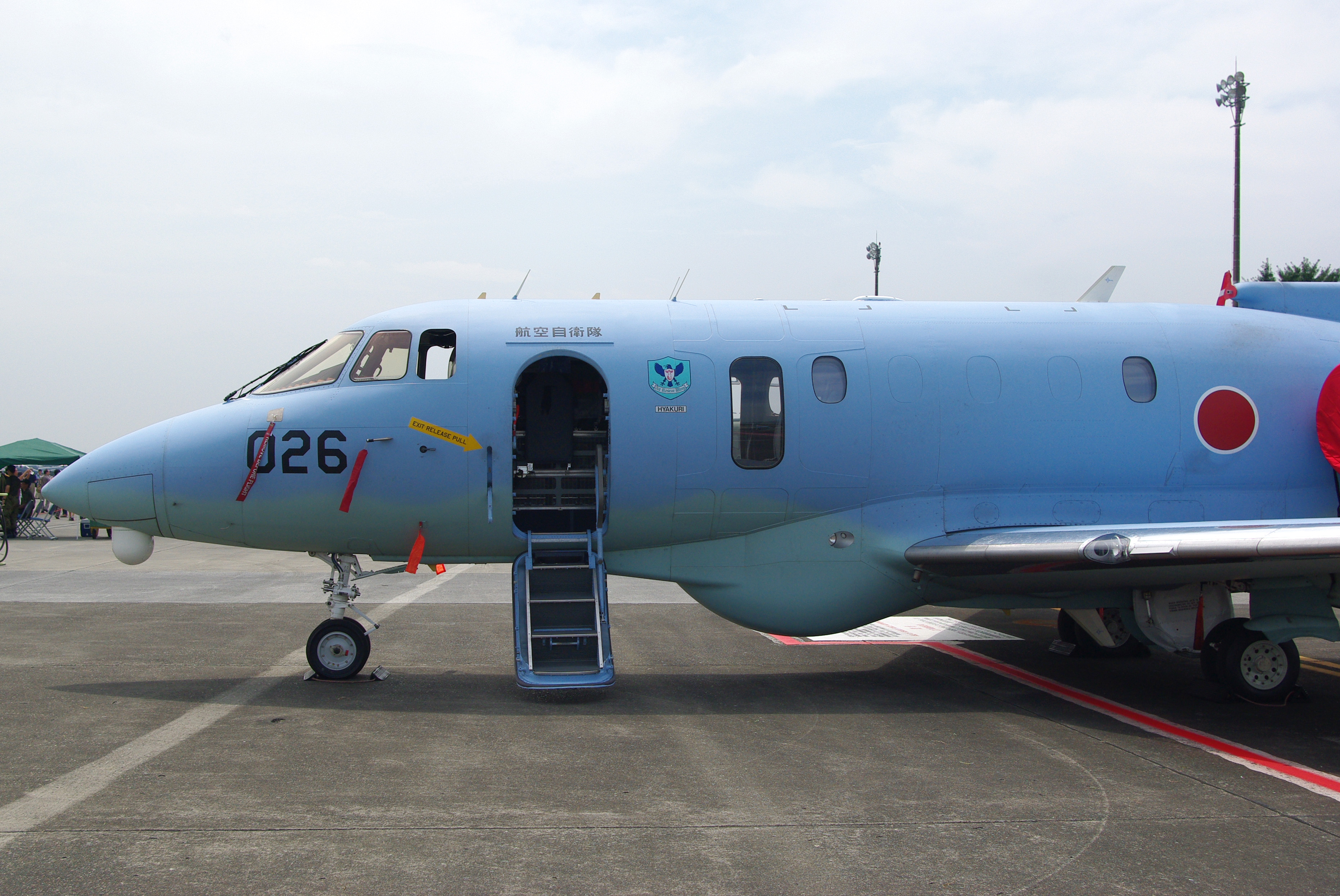 JASDF U-125A search and rescue aircraft.At USAF Yokota AFB,Japan.Taken by Los688,22-Aug-2009.PD-self. Ja:航空自衛隊U-125A捜索救難機。機体番号92-3026 百里救難隊。2009年8月22日、横田基地にて撮影。